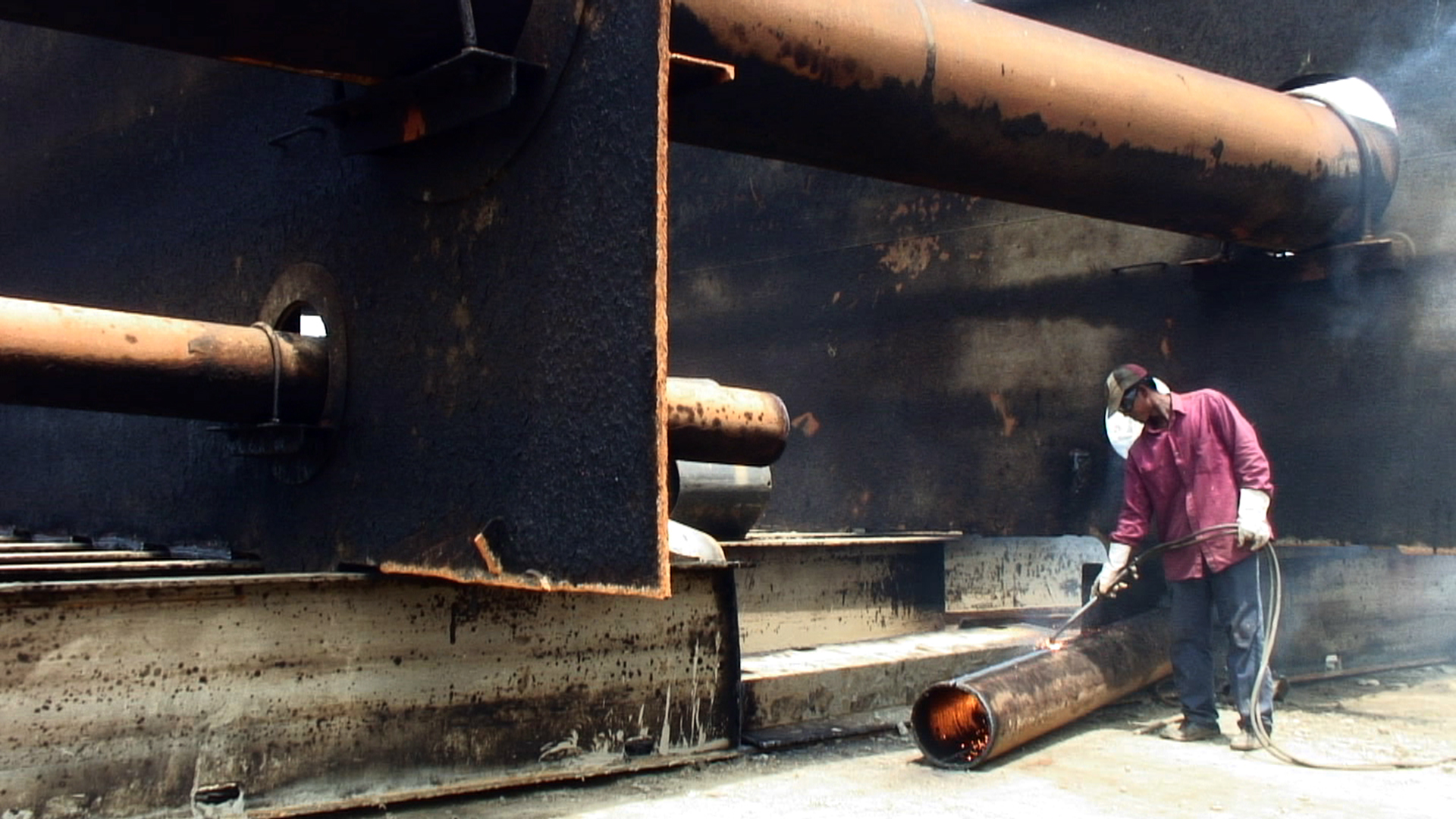 SHIPWRECK •Documentary 2010 •Dir. Javier Gómez Serrano •Prod. Stéphane M. Grueso •elegant mob films / TVE / Odisea •1 x 58' / color / stereo •HD - HDCAM Shipwreck is the story of Jahur and Lamu, men that work at the ship yards breaking vessels in Chittagong, a coastal province of Bangladesh# This is the story of ordinary Bengali men struggling to raise their families against a backdrop of labor uncertainty, health hazards unknown to us, and salaries that make them the most competitive labor force in the world# Jahur is a cutter, a crafted worker that slices down the ships day and night# He sits at the top of the job positions in the yard# Lamu is older but strong, he is one of those workers that lift and carry steel planks all day# The three of them represent the whole of the man power assembled in the yards# This is their story#